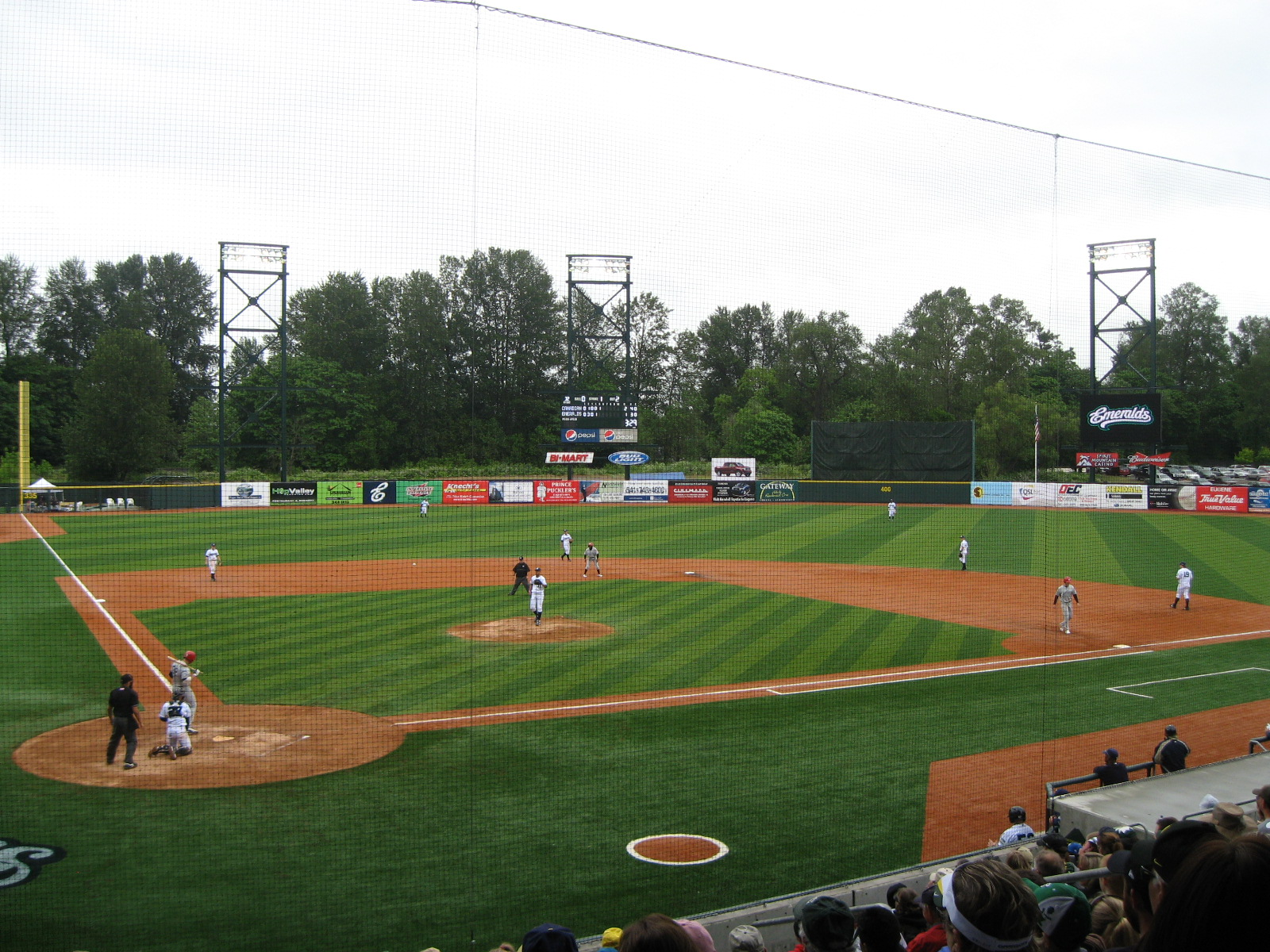 Eugene Emeralds vs. Vancouver Canadians MiLB game at PK Park in Eugene, Oregon.